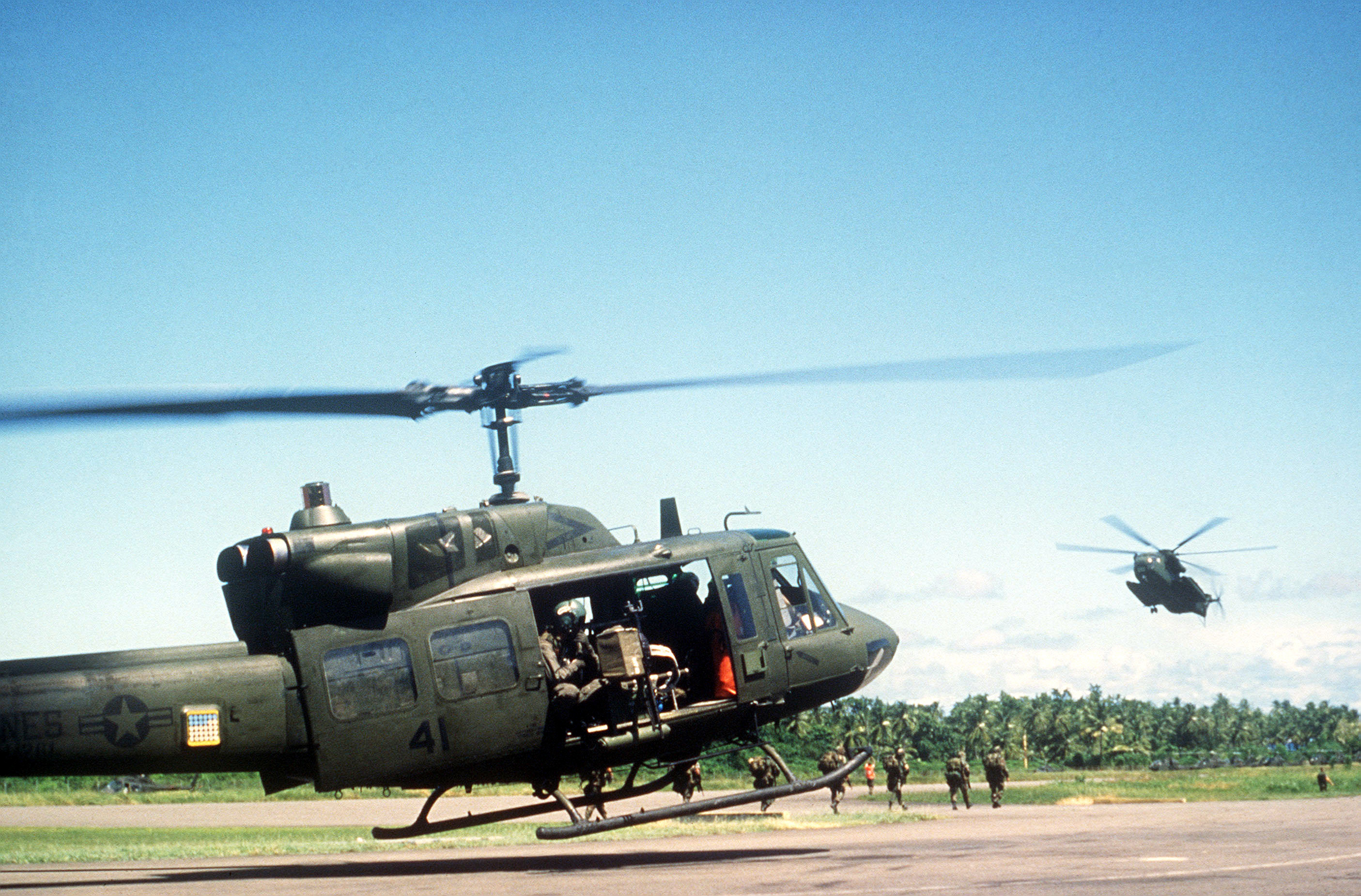 A U.S. Marine Corps Bell UH-1N Huey helicopter from Marine medium heicopter transport squadron HMM-261 Raging Bulls during "Operation Urgent Fury" on 25 October 1983. The helicopter is equipped with door-mounted M60D machine guns. In the background is a Sikorsky CH-53D Stallion helicopter.